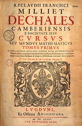 Front page of first edition of the Cursus (1674) by Claude François Milliet Dechales (1621-1687)